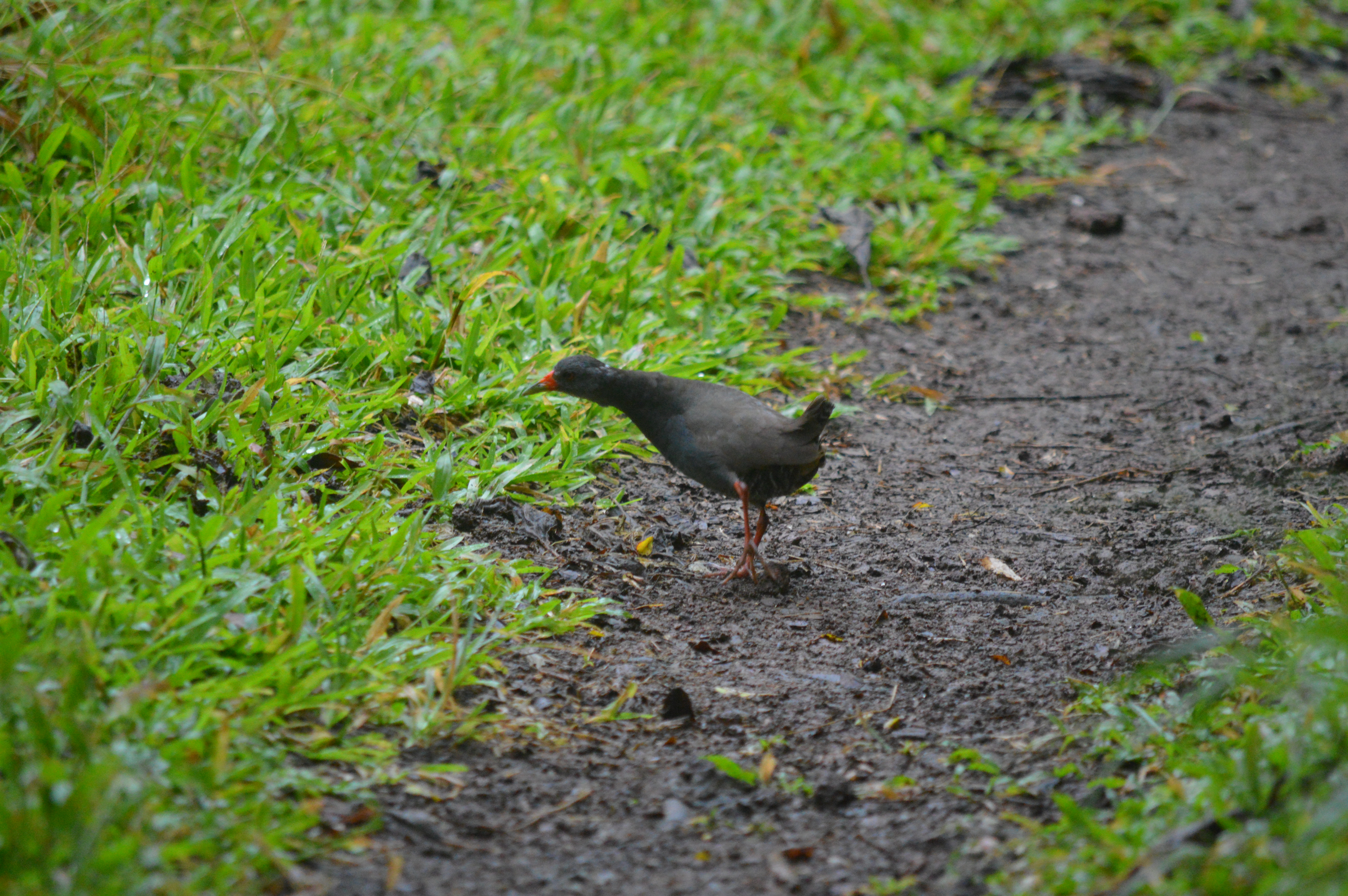 Paint-billed crake (Neocrex erythrops) photographed at Asilo de la Paz on Floreana Island in March 2020.